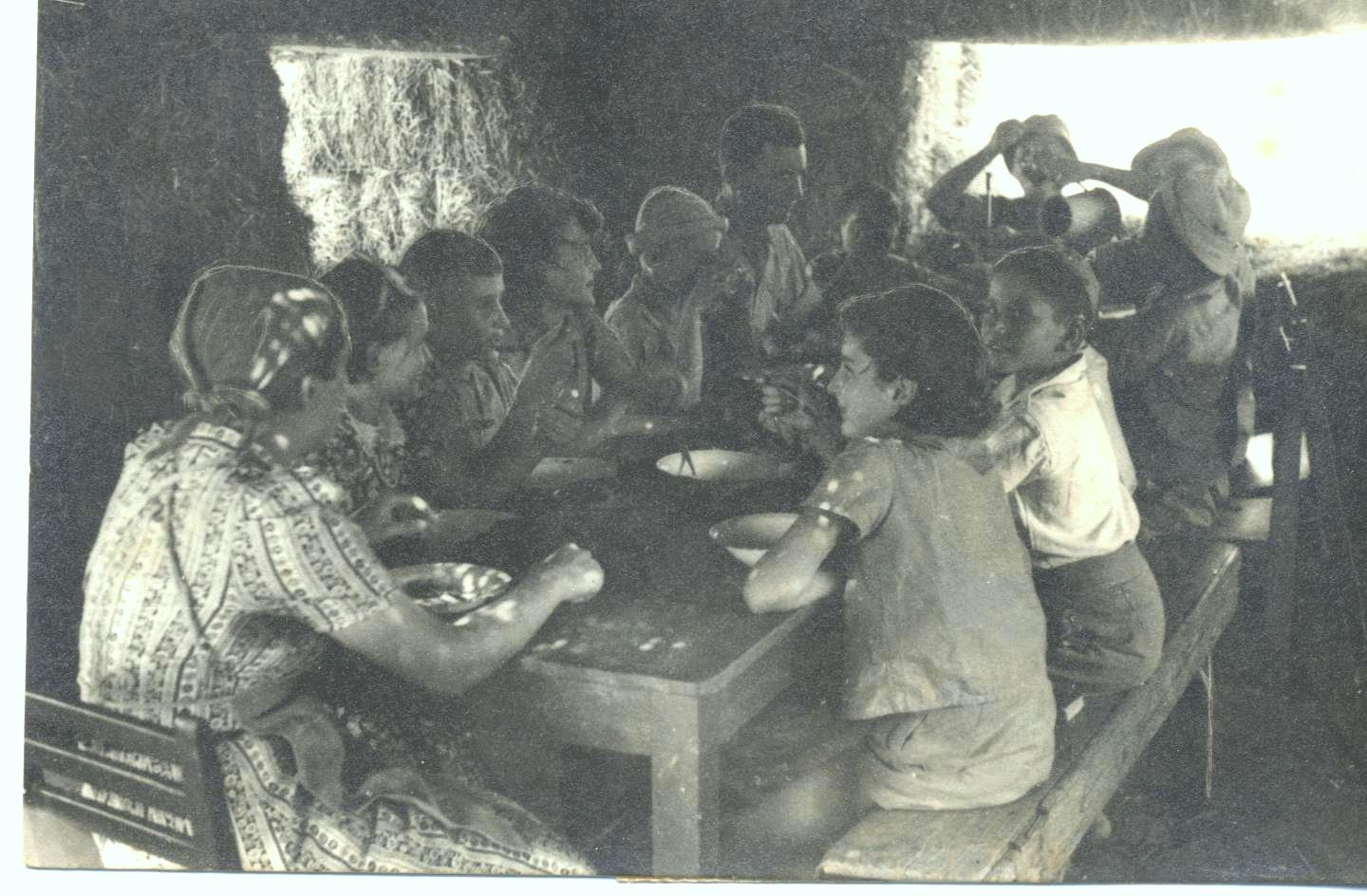 "Children of Teheran\" in \"Kevuzat Yavne\"